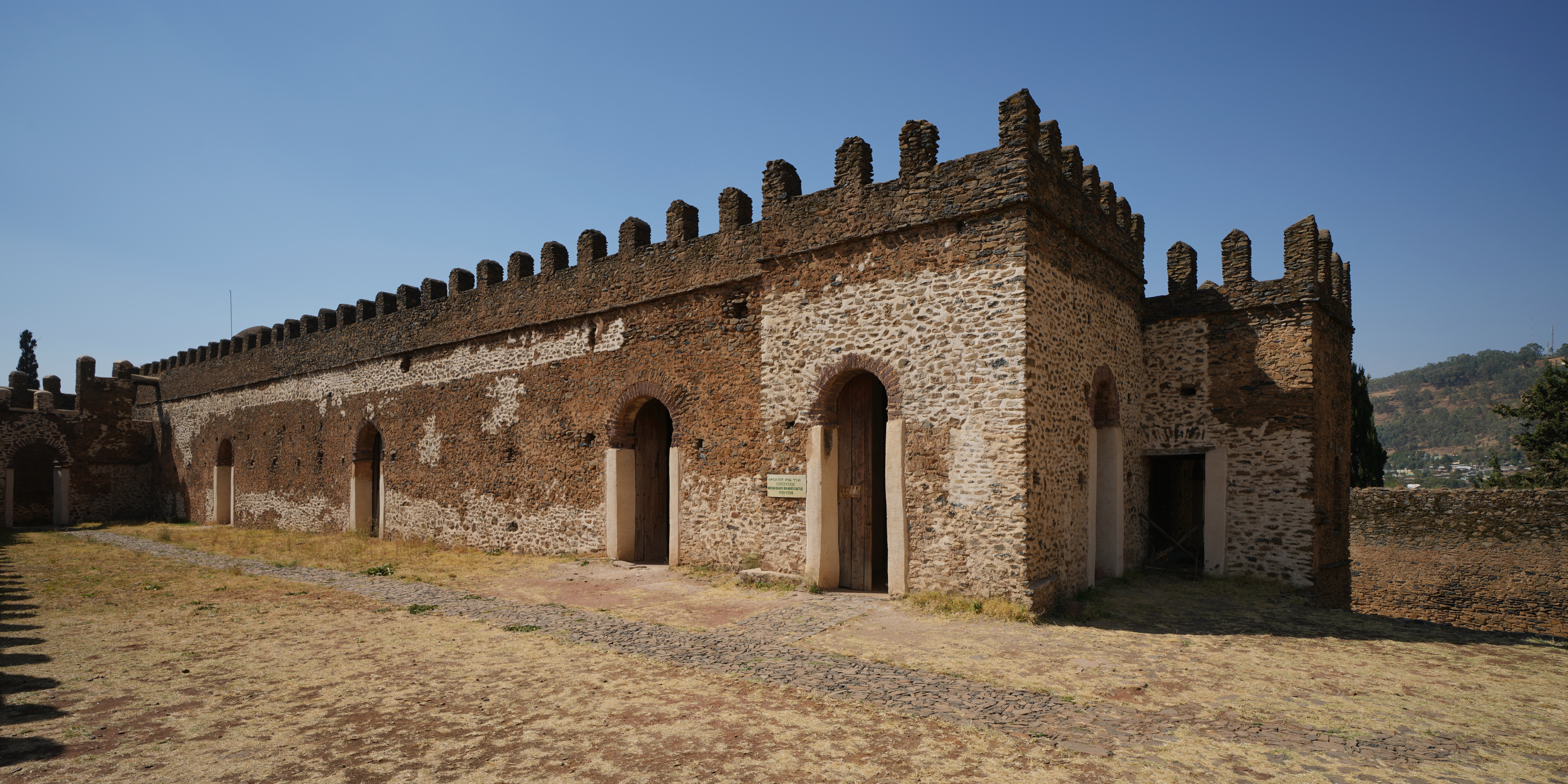 Fasil Ghebbi fortress in Gondar, Ethiopia